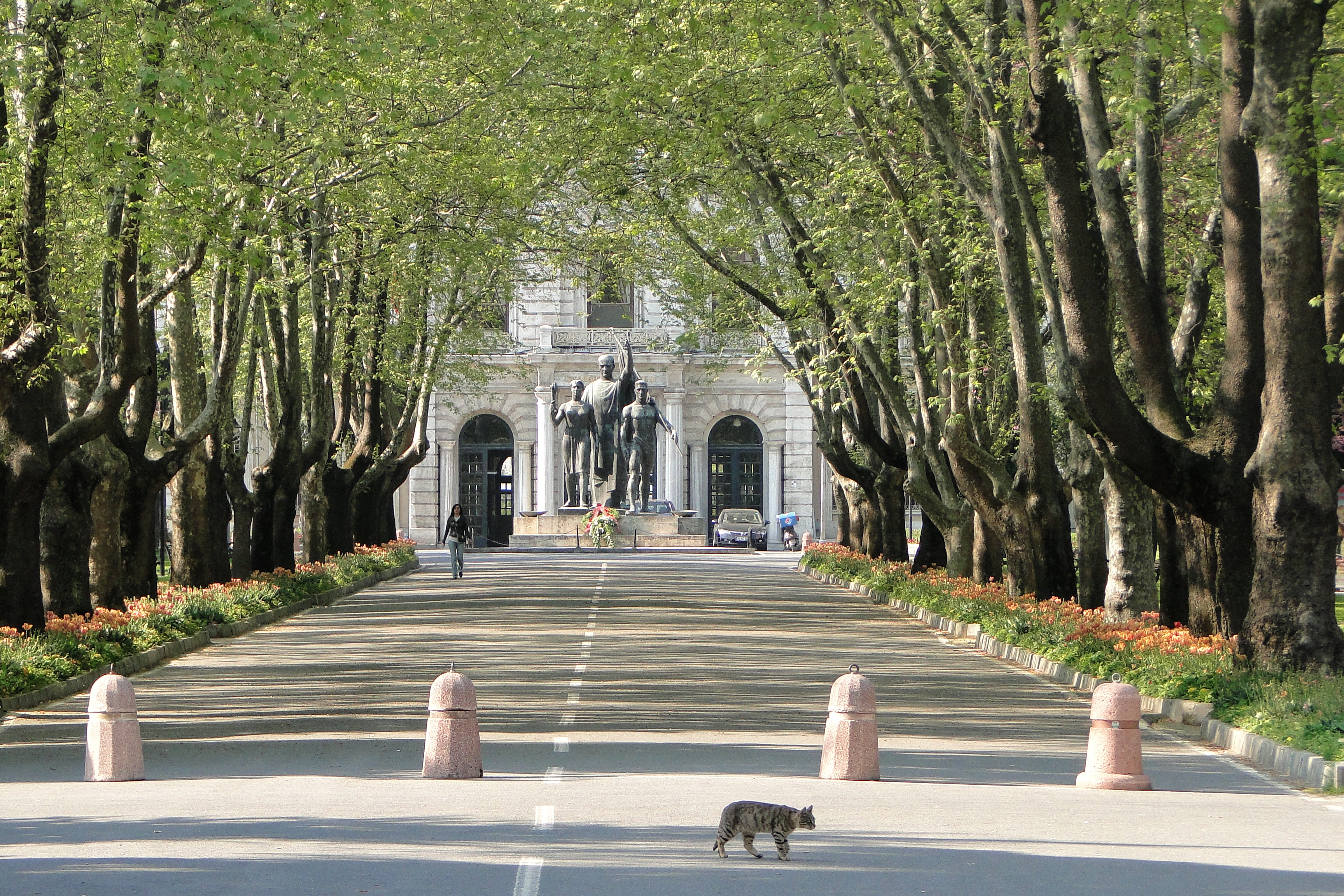 Entrance to Istanbul University - Sultanahmet District - Istanbul - Turkey